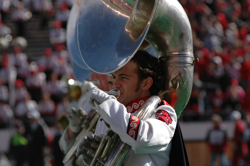 A member of the Texas Tech University Goin' Band from Raiderland playing a sousaphone during a halftime show. Taken at the 2004 Texas Tech vs. Baylor game.